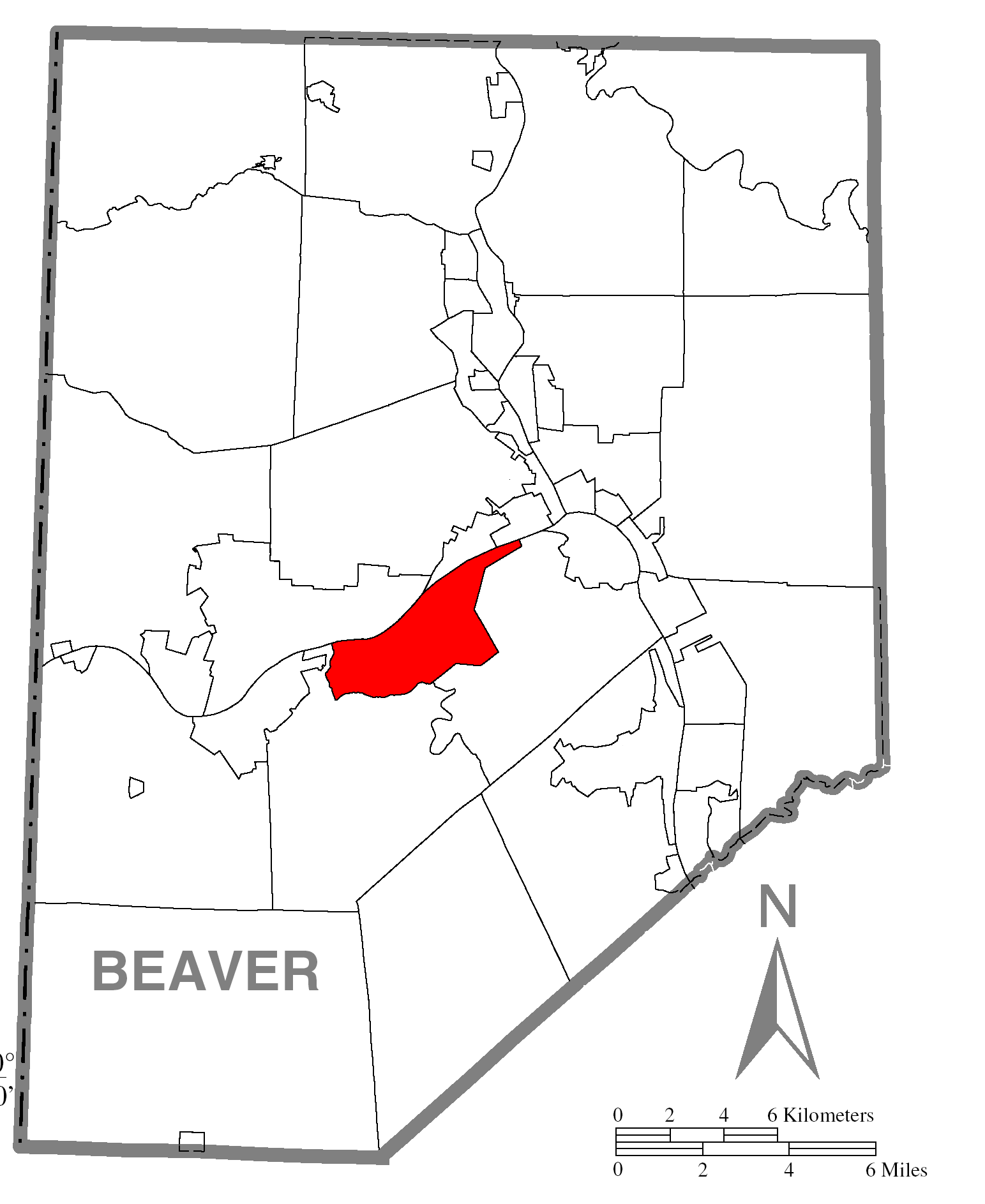 A map of Beaver County showing Potter Township, Pennsylvania (alternate) highlighted on the map.